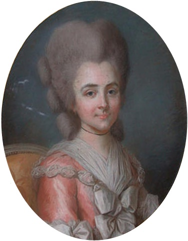 Portrait of Bathilde d'Orléans (1750-1822)